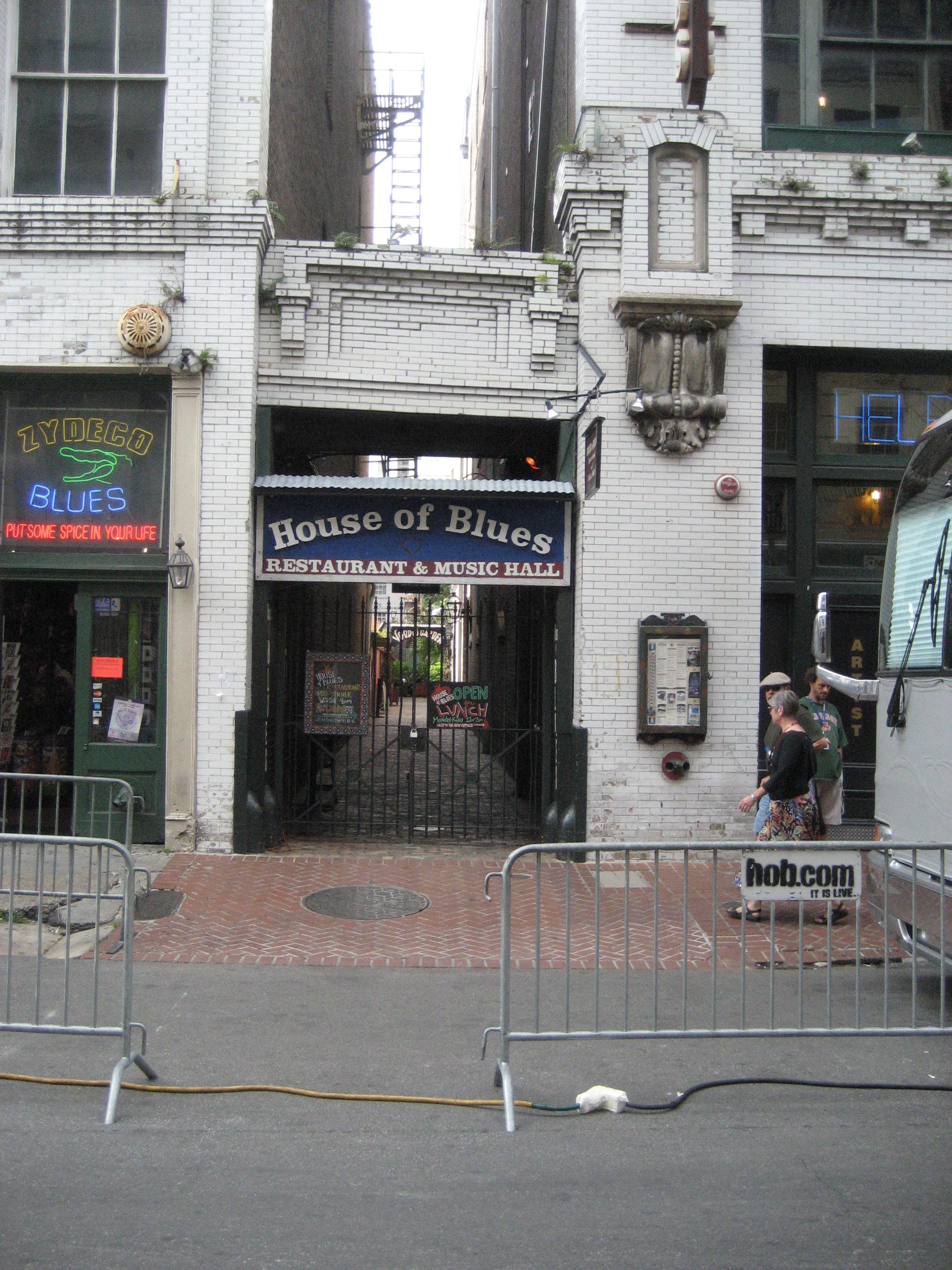 New Orleans French Quarter. Decatur Street entrance of "House of Blues"